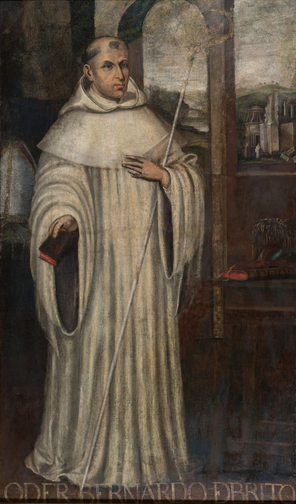 Frei Bernardo de Brito (1569-1617), Cistercian monk, and Portuguese historian.